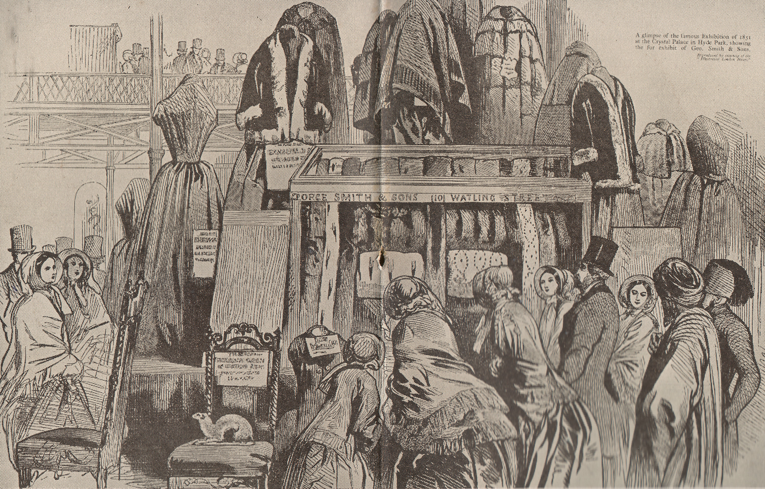 George Smith & Sons Ltd. of Old Bailey, Gough Square & 9, 10 & 11 Watling Street. Wholesale Furriers. George Smith & Sons' Exhibit at the Great Exhibition, 1851. Contemporary Illustration from "The Illustrated London News".